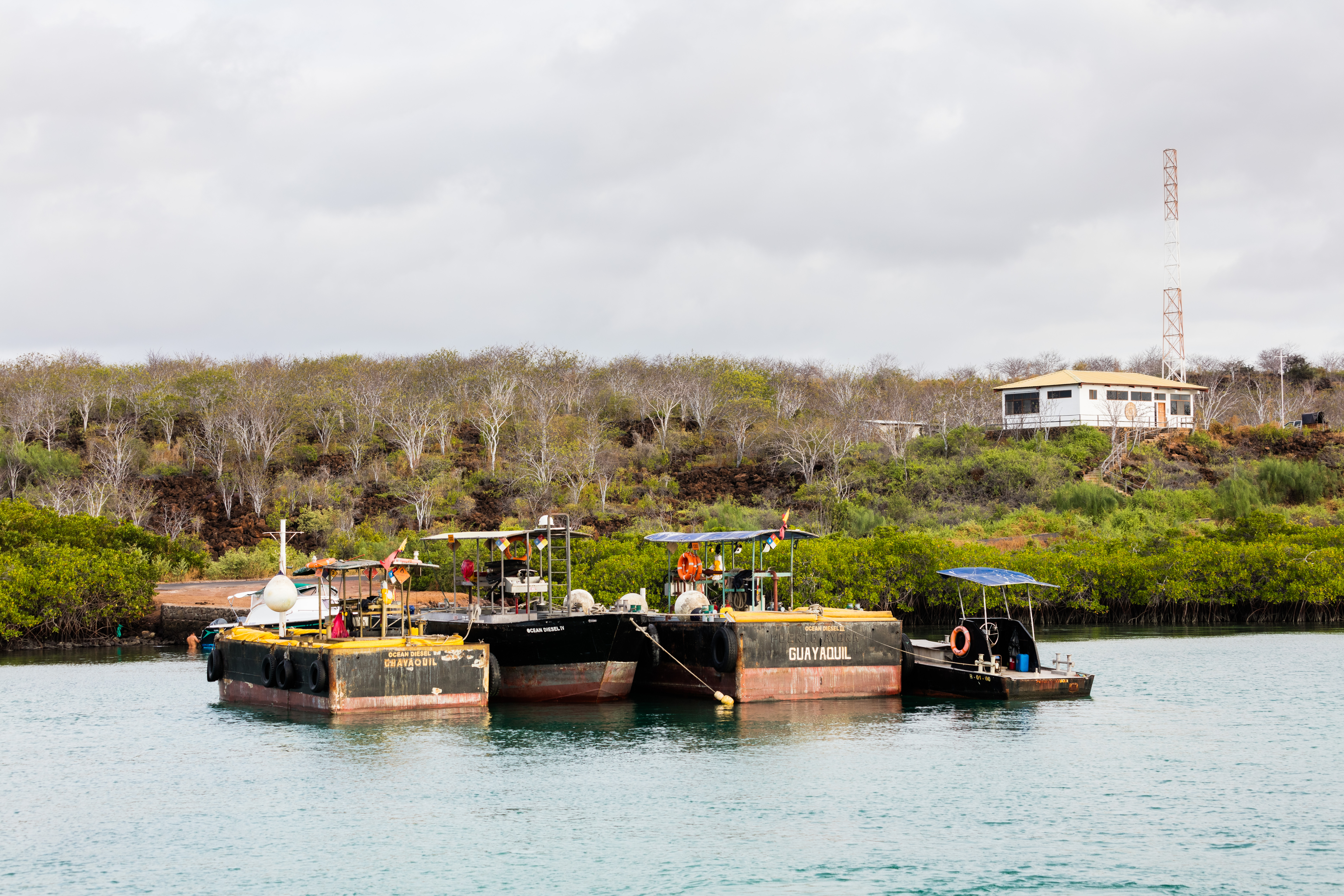 Marine petrol station, Baltra island, Galapagos islands, Ecuador